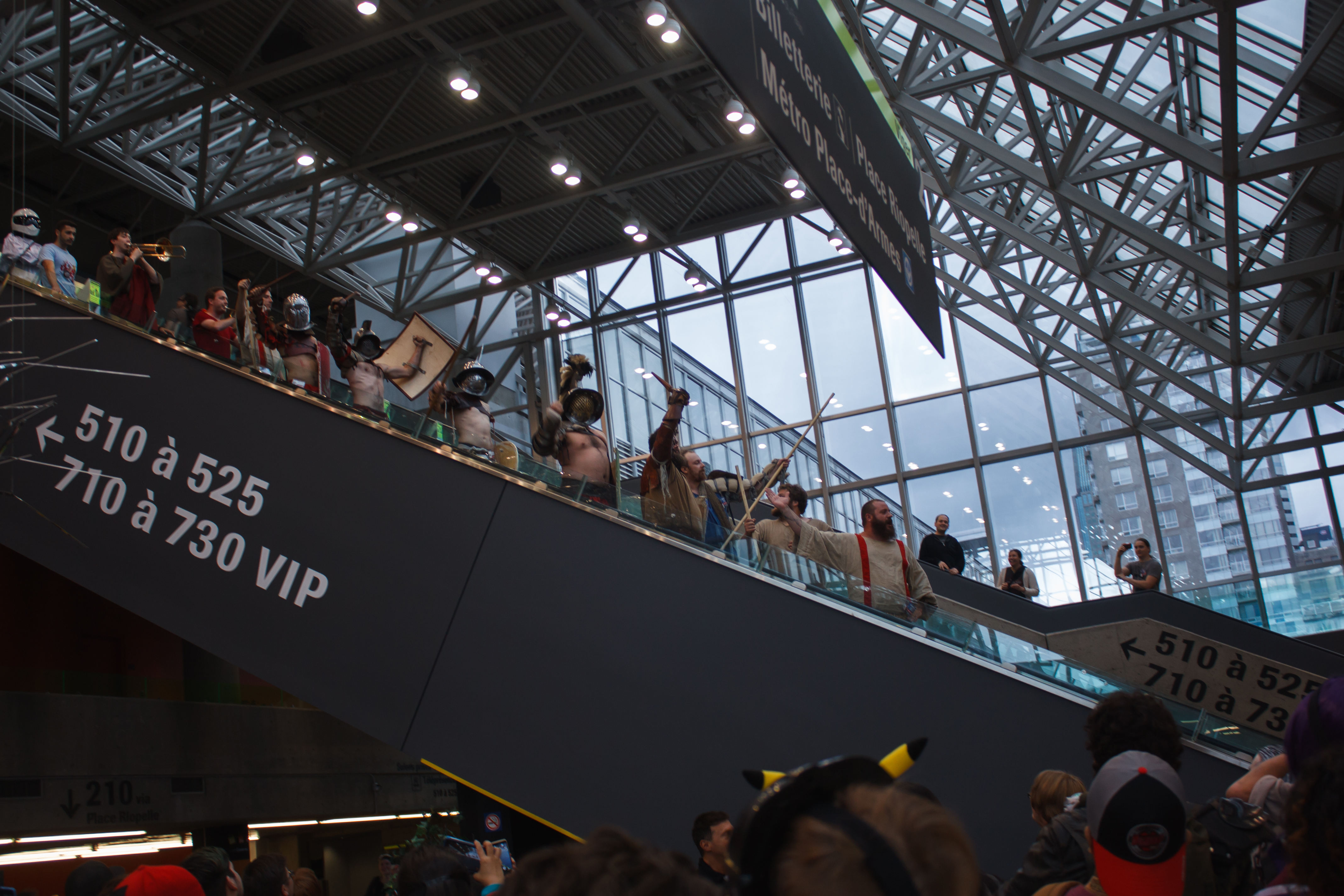 Roman gladiators descend to the main hall to advertise their last show at the closing hour of the convention in-character. Cosplay on Sunday, day three, of the Montreal Comiccon 2016.